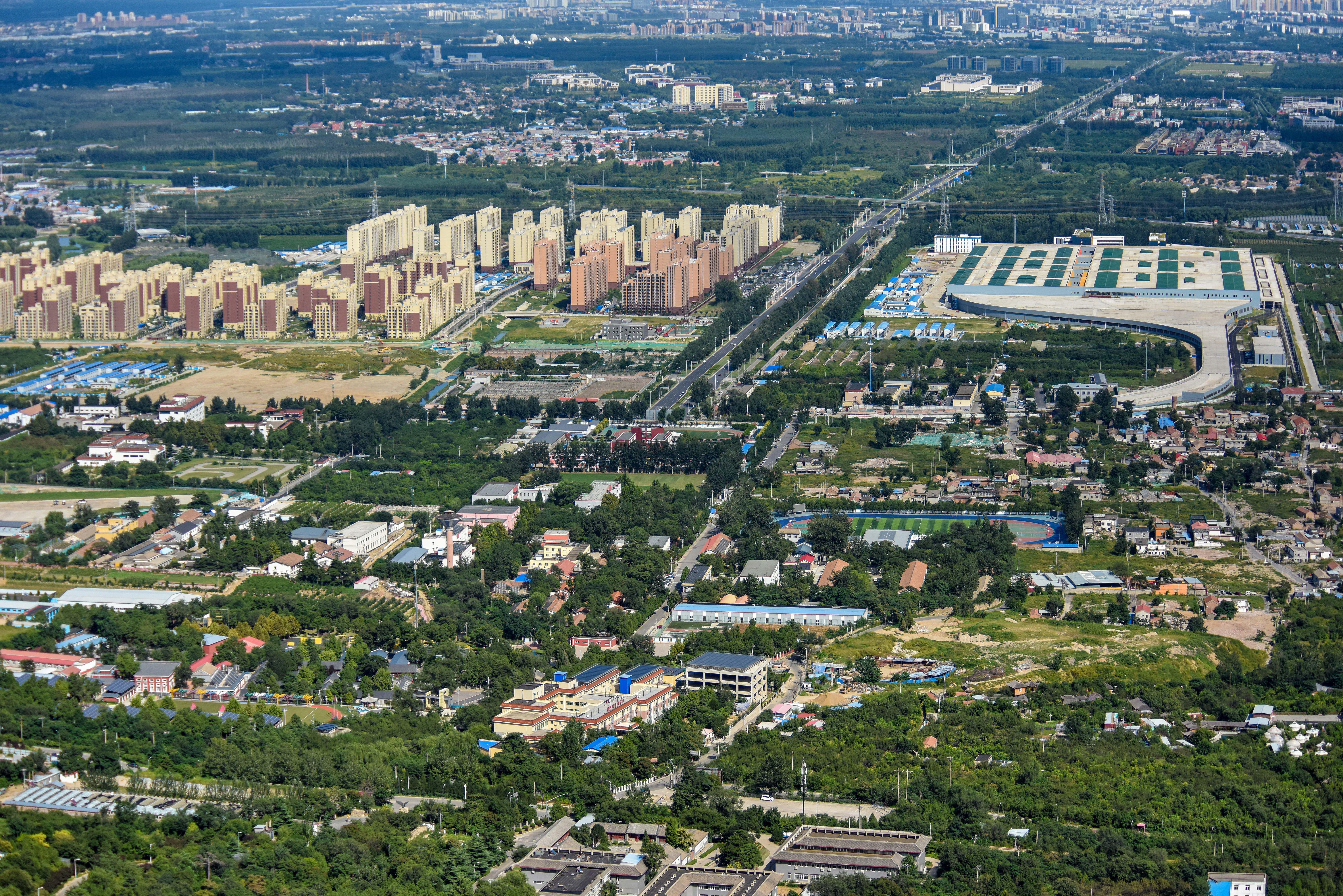 Taken from Jiufeng, in former Beianhe Township.